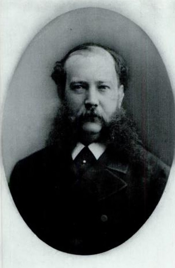 Adolf Wilhelm Graf von Kessler (b. 1839; d. 1895)